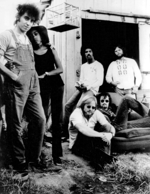 Publicity photo of the Elvin Bishop Group.